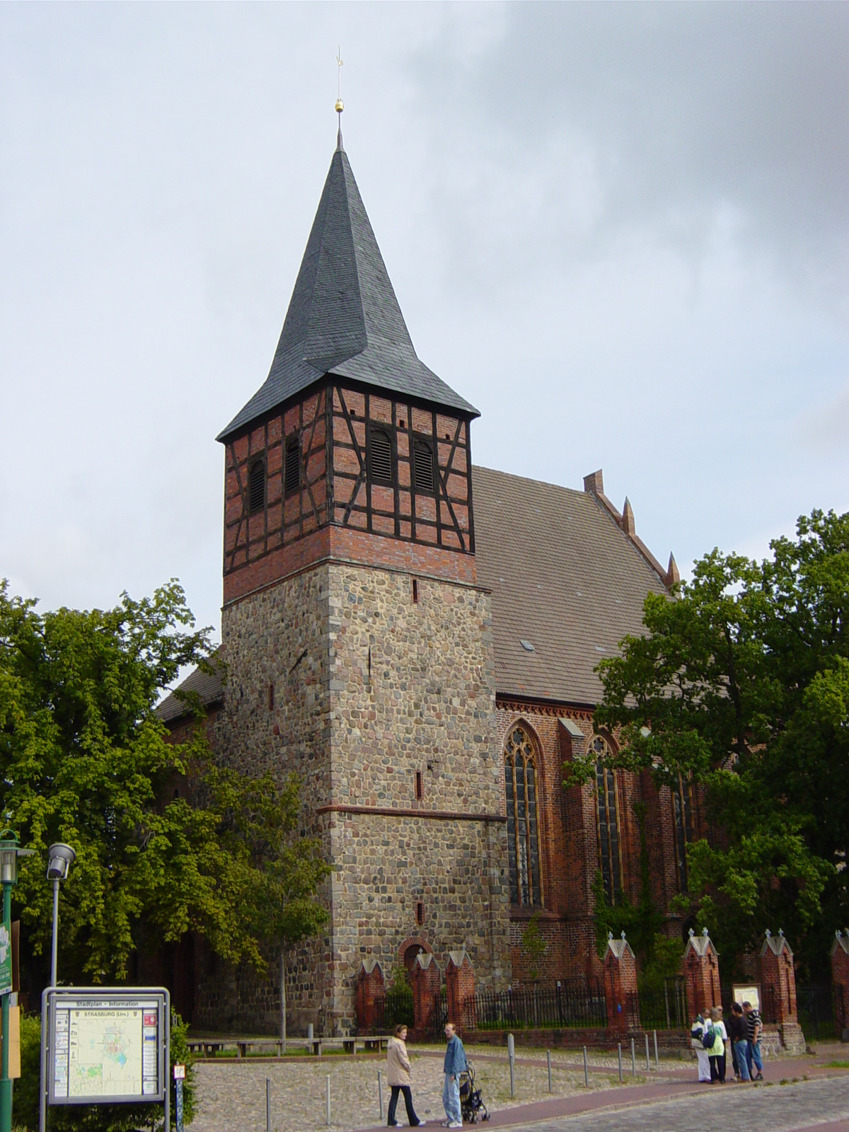 St. Marien church in Strasburg, without tower clock at those moment